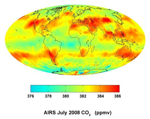 This global satellite map shows carbon dioxide in the mid-troposphere, about 8 kilometers above Earth. It was created with data acquired by the Atmospheric Infrared Sounder (AIRS) instrument during July 2008. The distribution of carbon dioxide in this region of the atmosphere is strongly influenced by major surface sources of carbon dioxide and by large-scale atmospheric circulation patterns, such as the jet streams and weather systems in Earth's mid-latitudes. Patterns of carbon dioxide distribution differ significantly between the northern hemisphere, with its many land masses, and the southern hemisphere, which is largely covered by ocean. AIRS is one of six instruments flying on NASA's Aqua satellite.